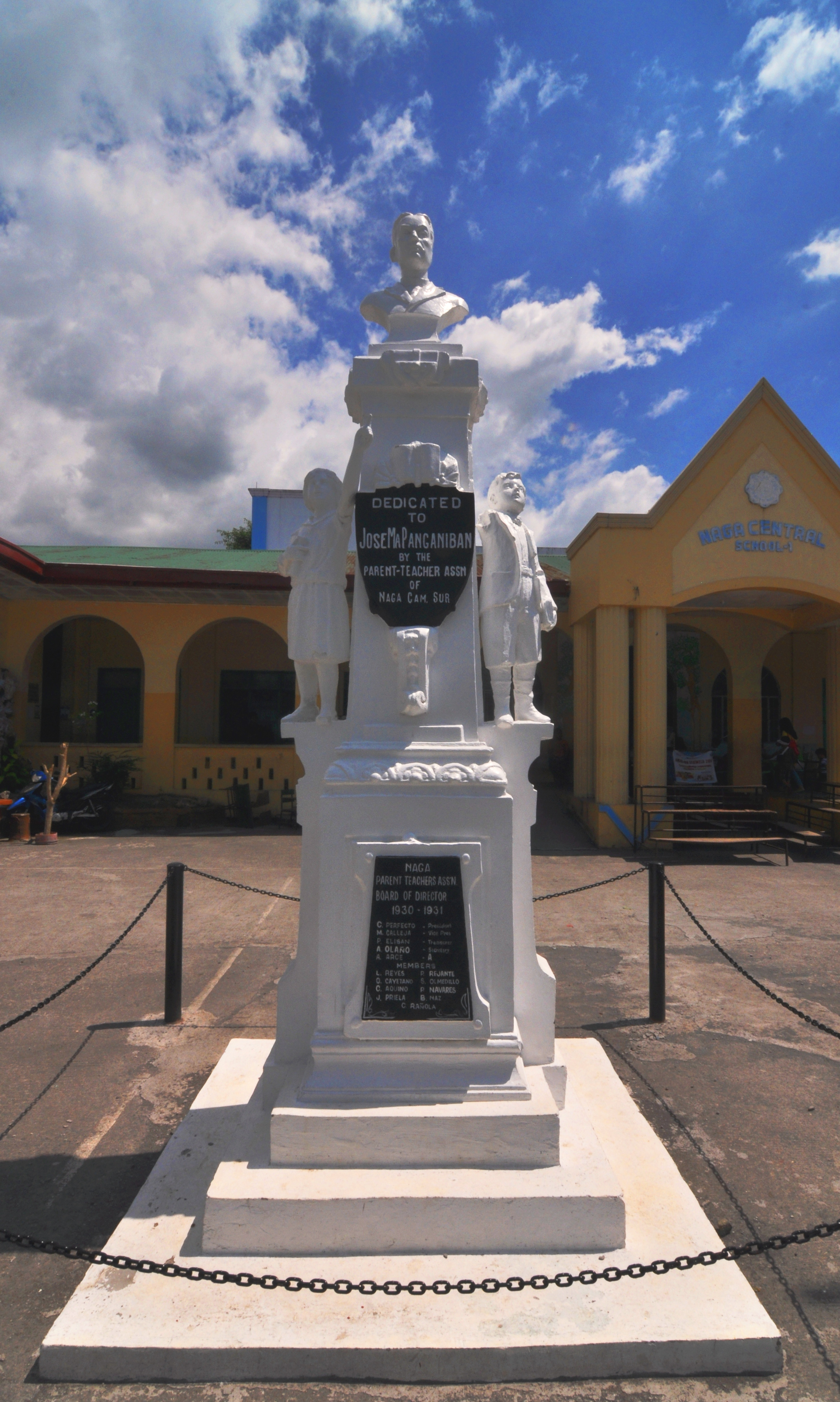 Monument of Jose Maria Panganiban, a great Filipino hero